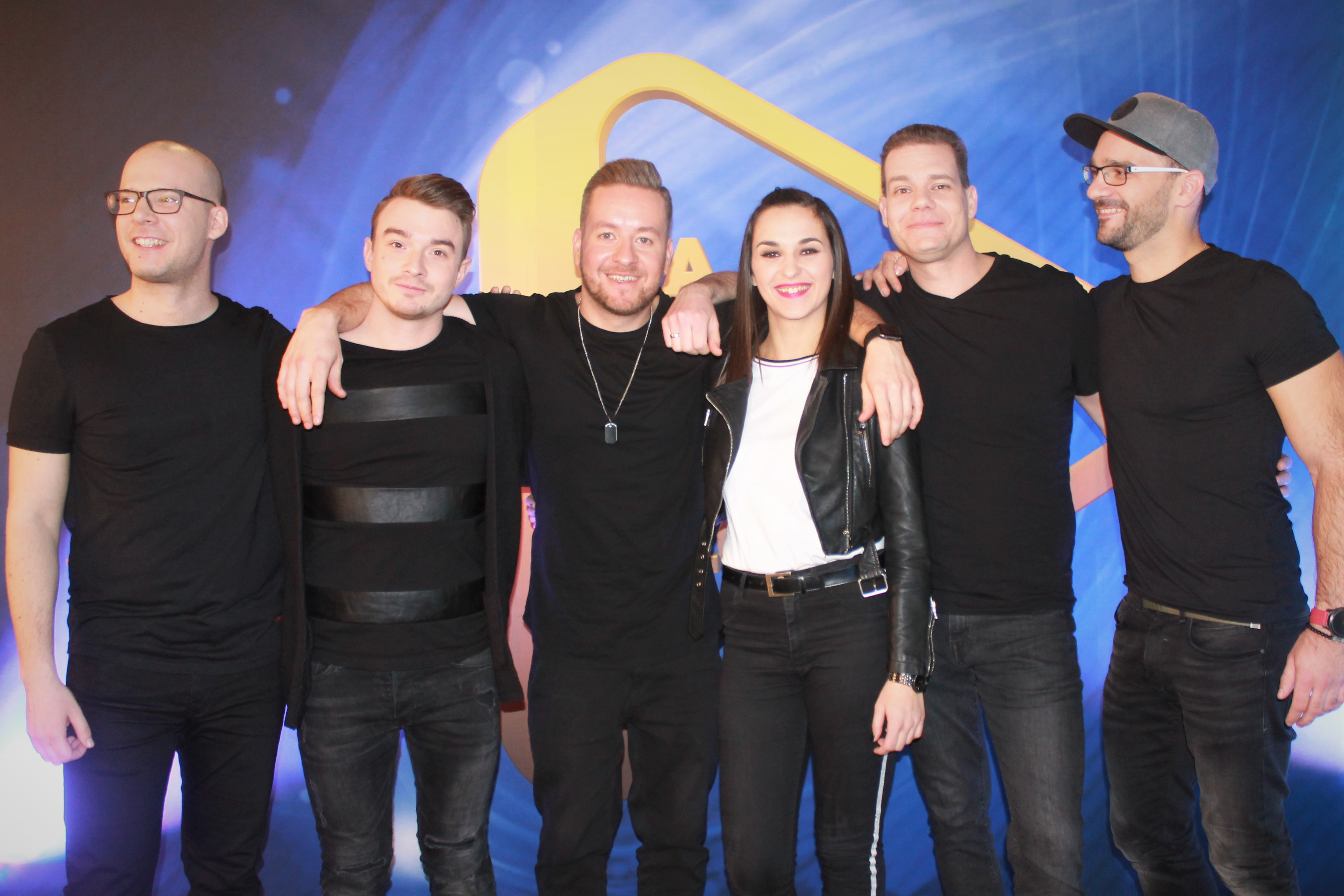 A Dal 2019 participant: DENIZ